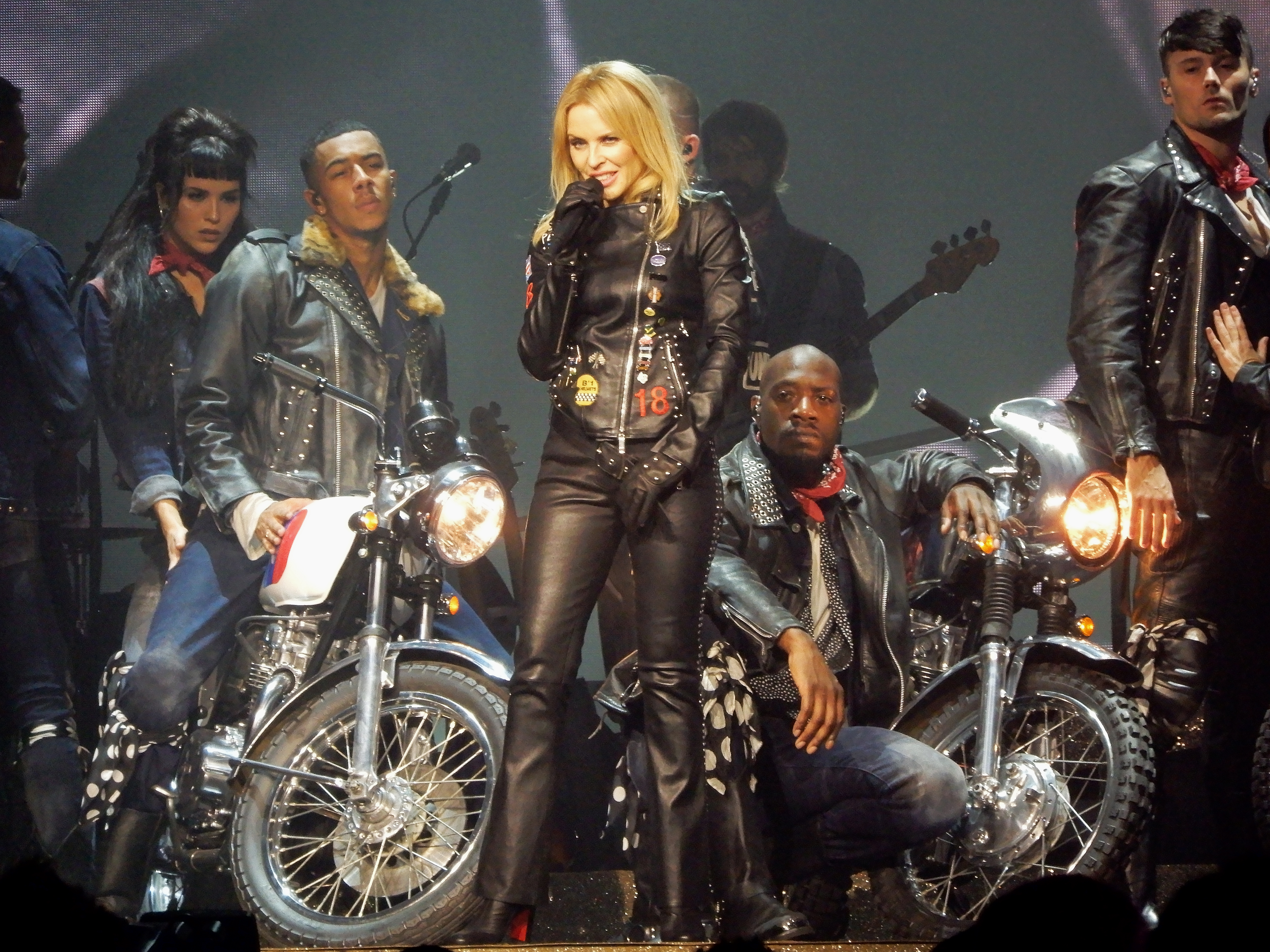 Kylie Minogue - Golden Tour - Motorpoint Arena - Nottingham - 20.09.18. - ( 26 )